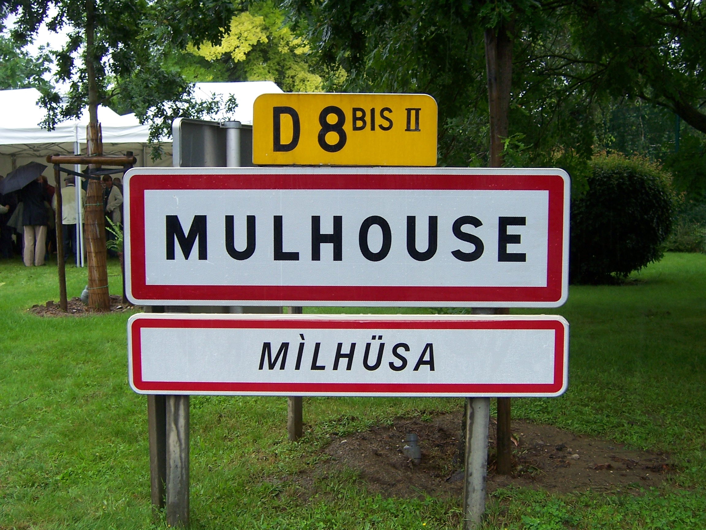 Mulhouse (Alsace, France) : shield at the entry of the city